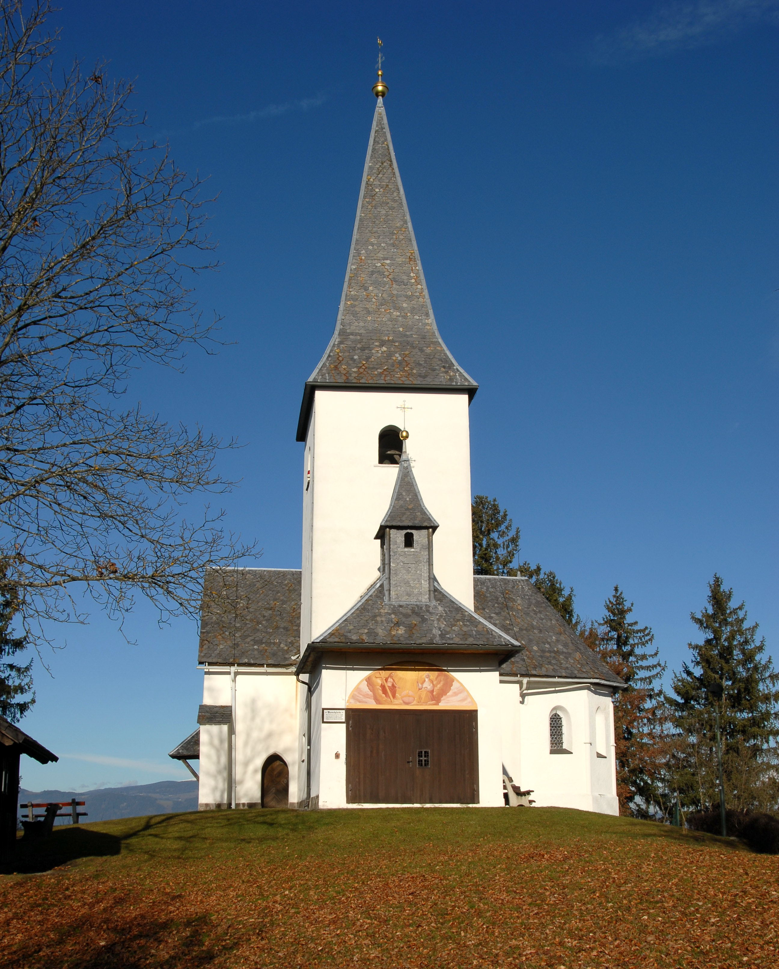 Church with the wish-bell on top of the Georg-mountain near the Lake Klopein in the community of Saint Kanzian, district of Voelkermarkt, Carinthia, Austria